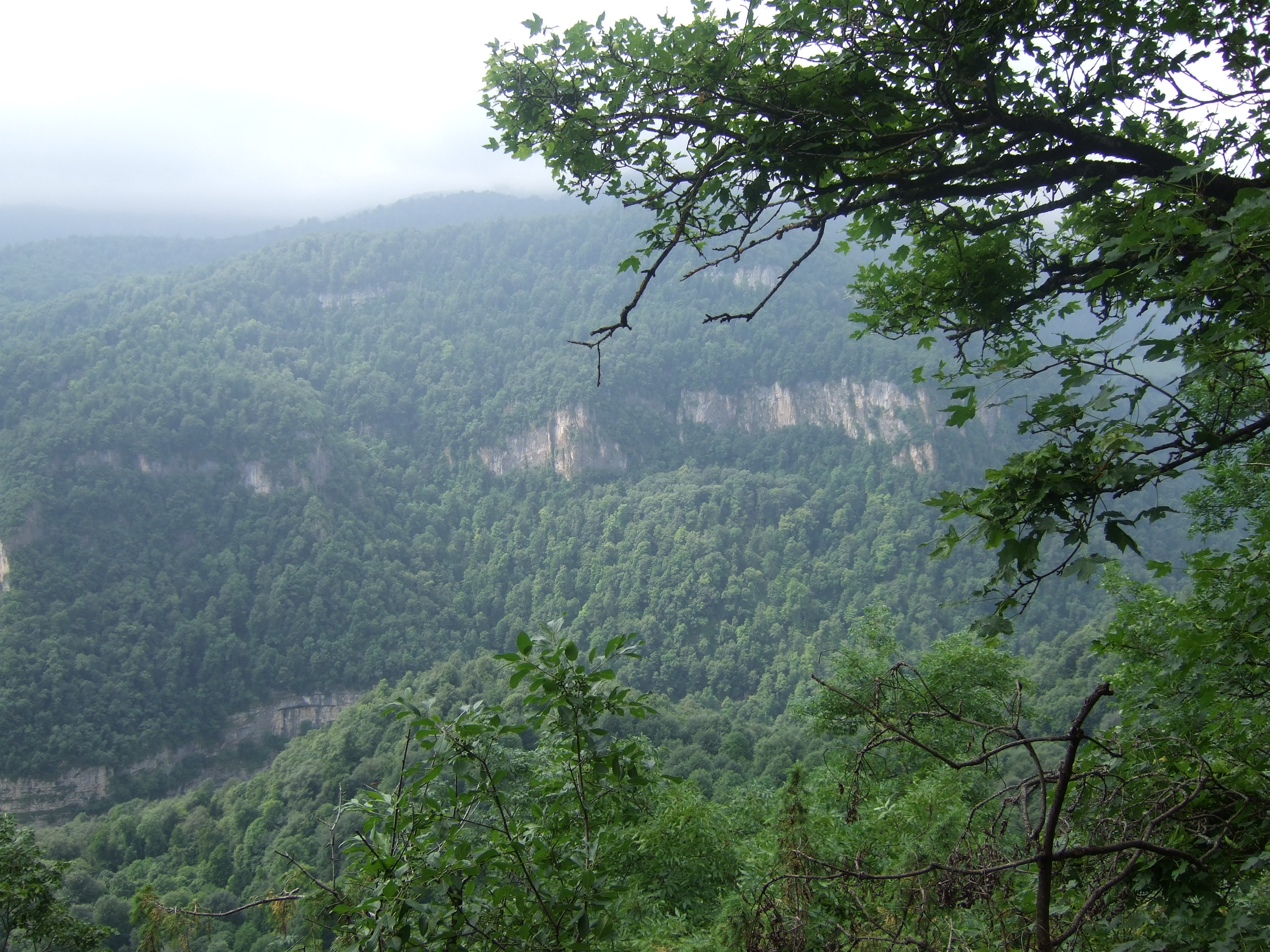 Lastiver, Tavush Province, Armenia